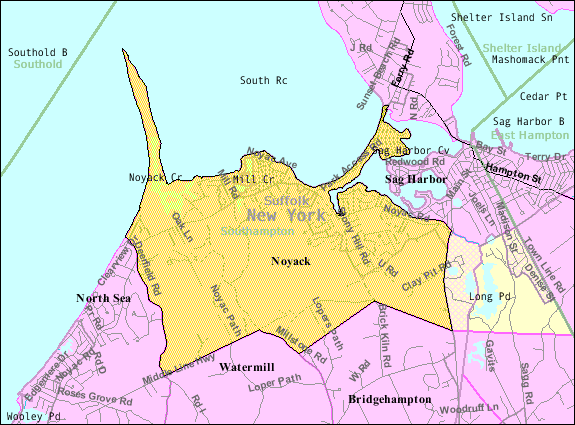 U.S. Census 2000 reference map for Noyack